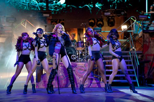 Miley Cyrus. Singing Can't be Tamed At Gipsy Heart Tour